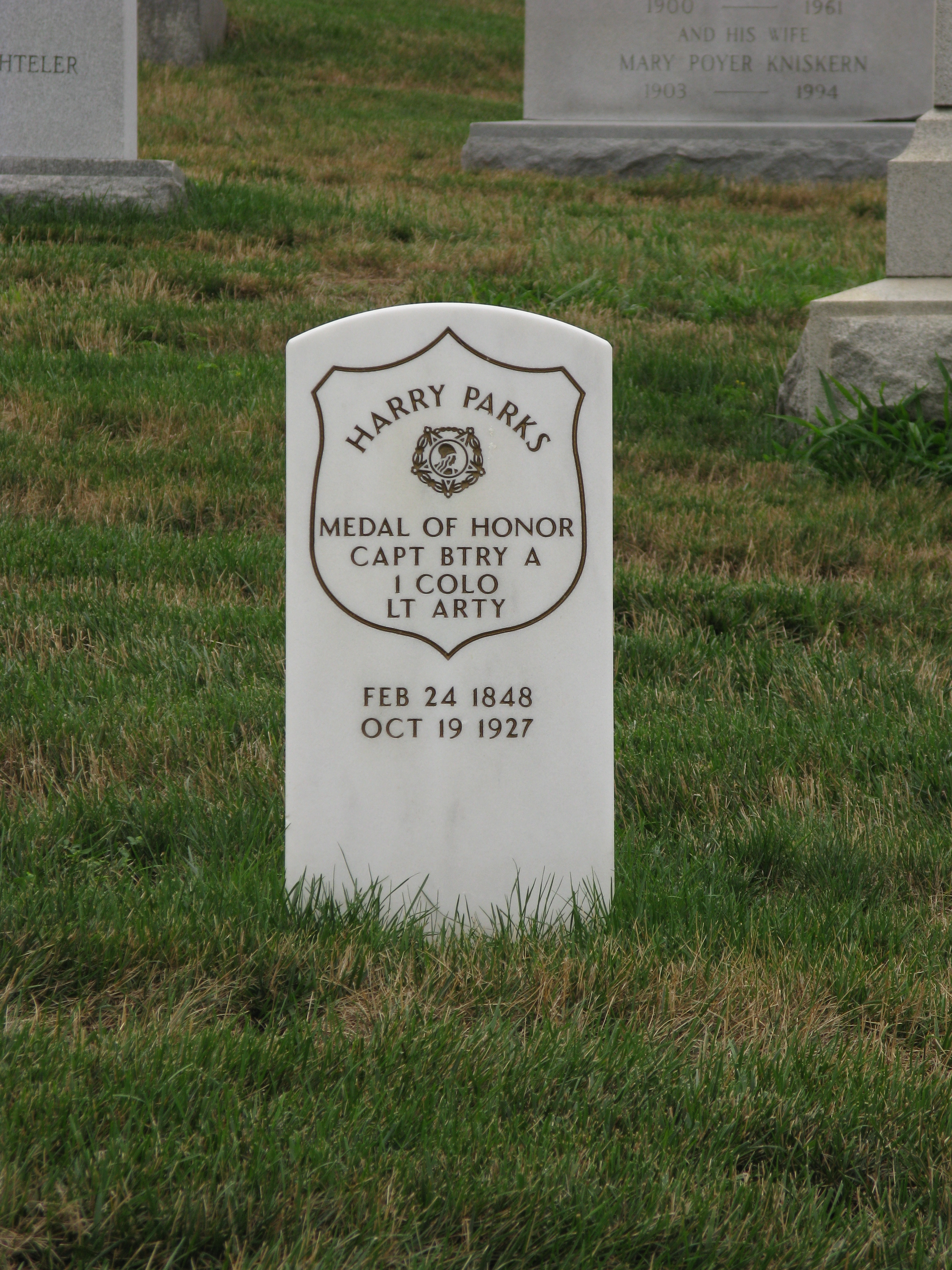 Headstone of Harry Jeremiah Parks at Arlington National Cemetery in Virginia.